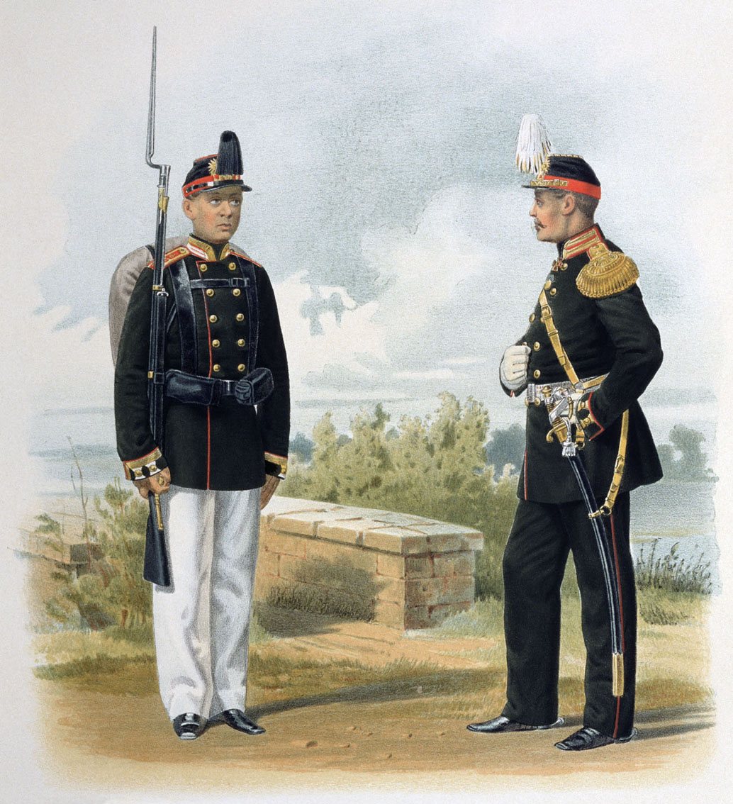 Junker and general in parade uniform at the Pavlov's military school in Russia. 1864.